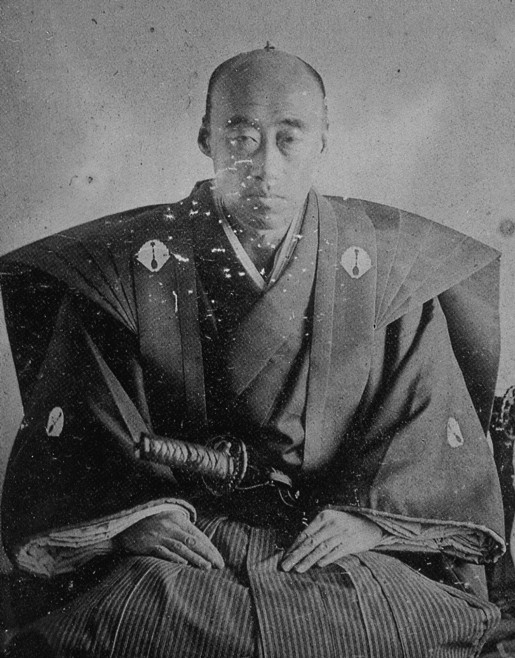 Wet collodion photograph of Nabeshima Naomasa, 10th load of Saga Domain. It is second older photograph that taken by Japanese person.